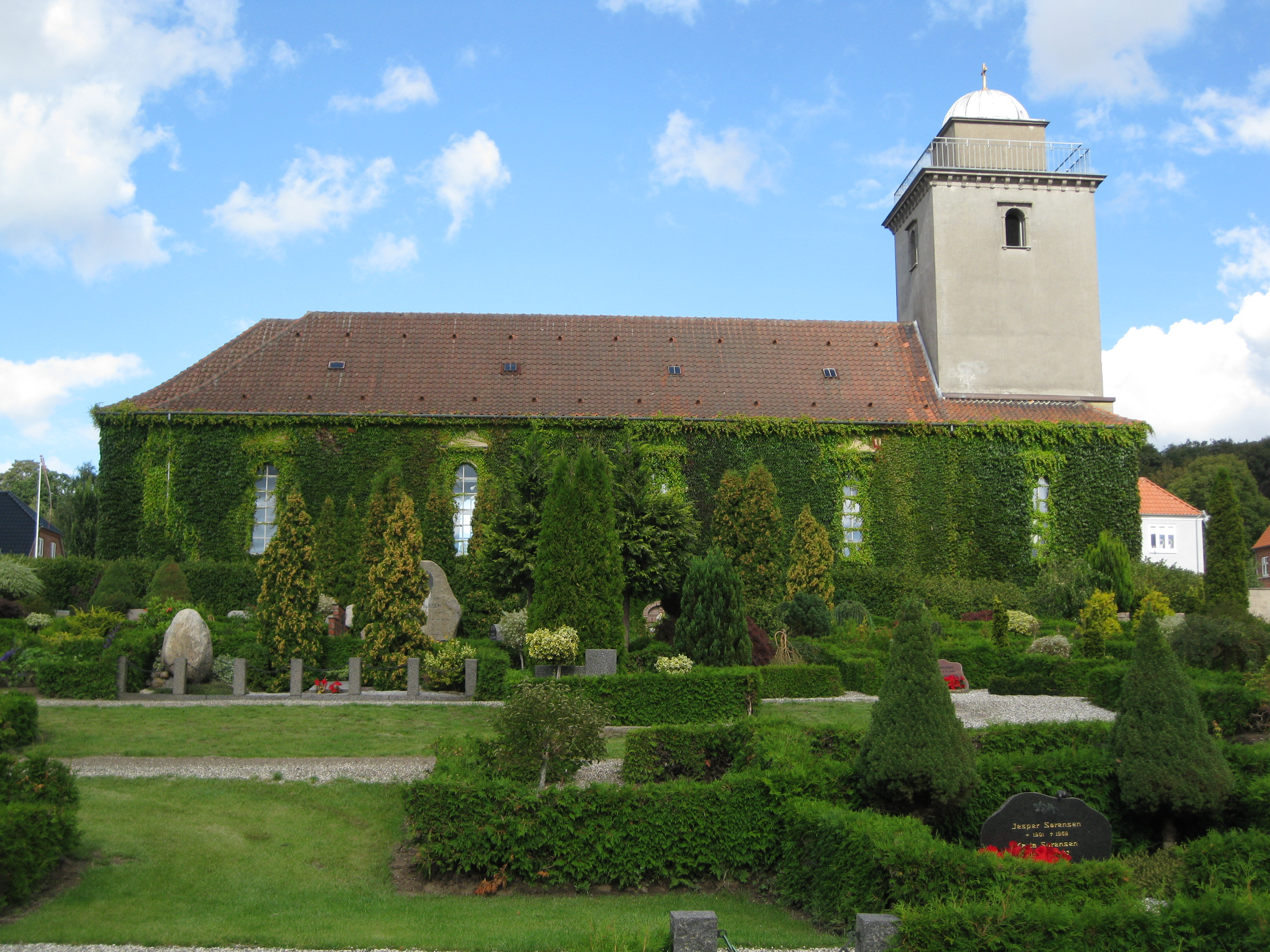 The church "Sct. Pauls Kirke" in the small town "Hadsten". The town is located in East Jutland, central Denmark.